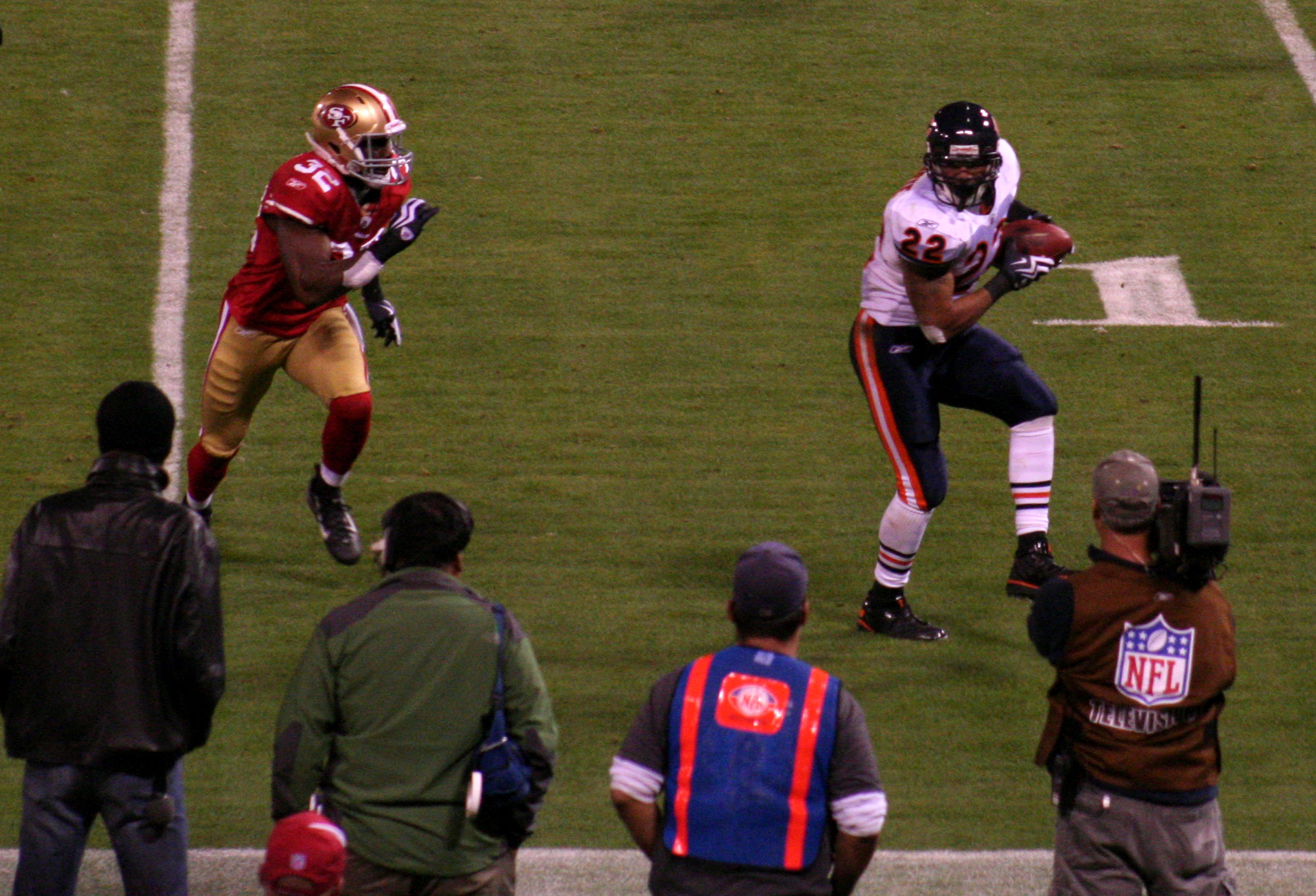 Defensive back Michael Lewis of the San Francisco 49ers pursuing running back Matt Forte of the Chicago Bears